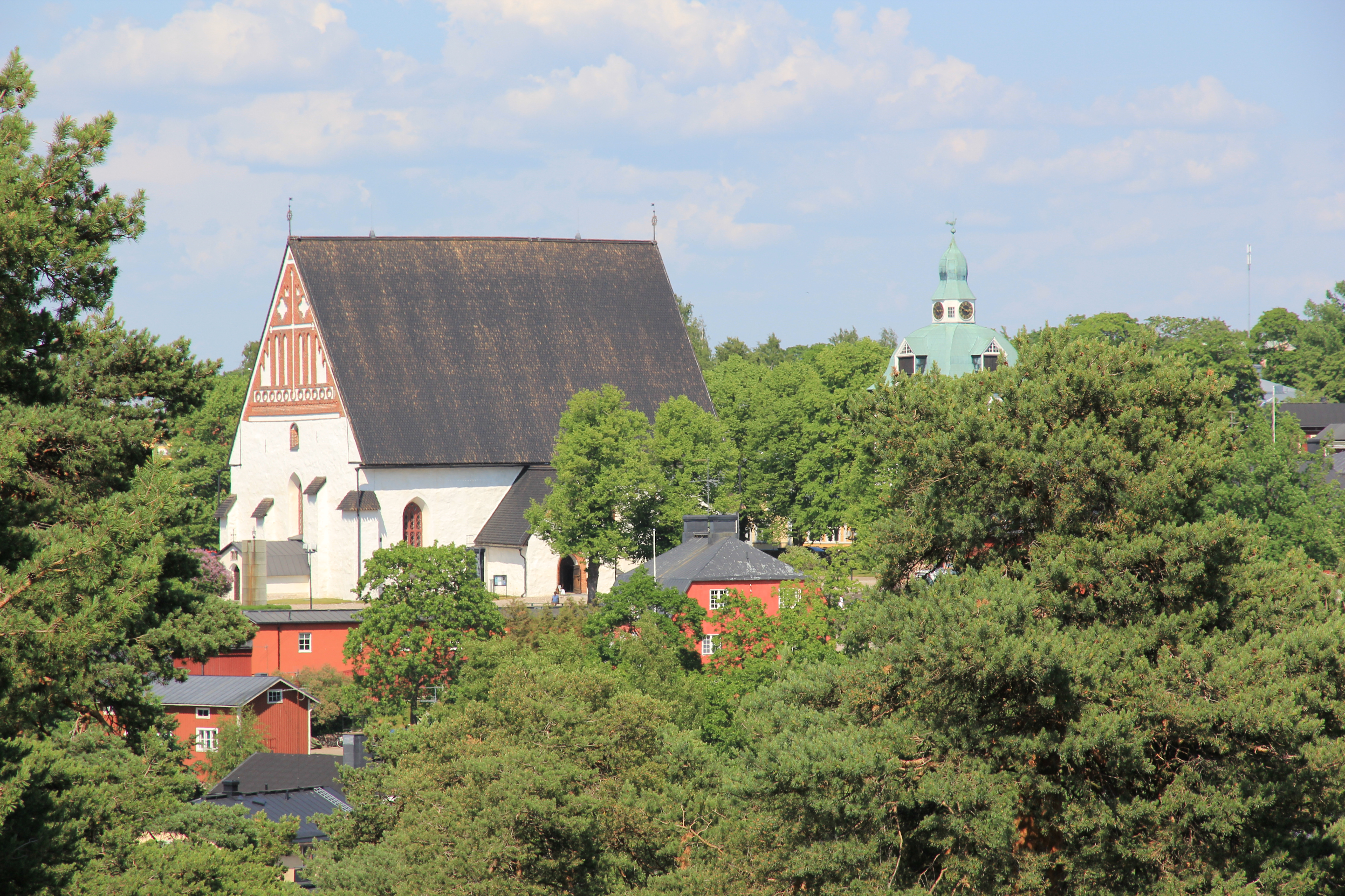 Porvoo Cathedral photographed from Näsin kivi vantage point.